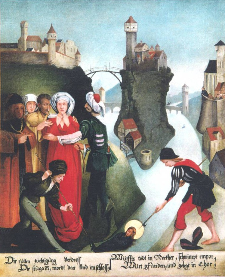 Saint Regiswindis is found dead in the Neckar river at Lauffen. Painting (copy of a copy) in the Regiswindiskirche in Lauffen am Neckar